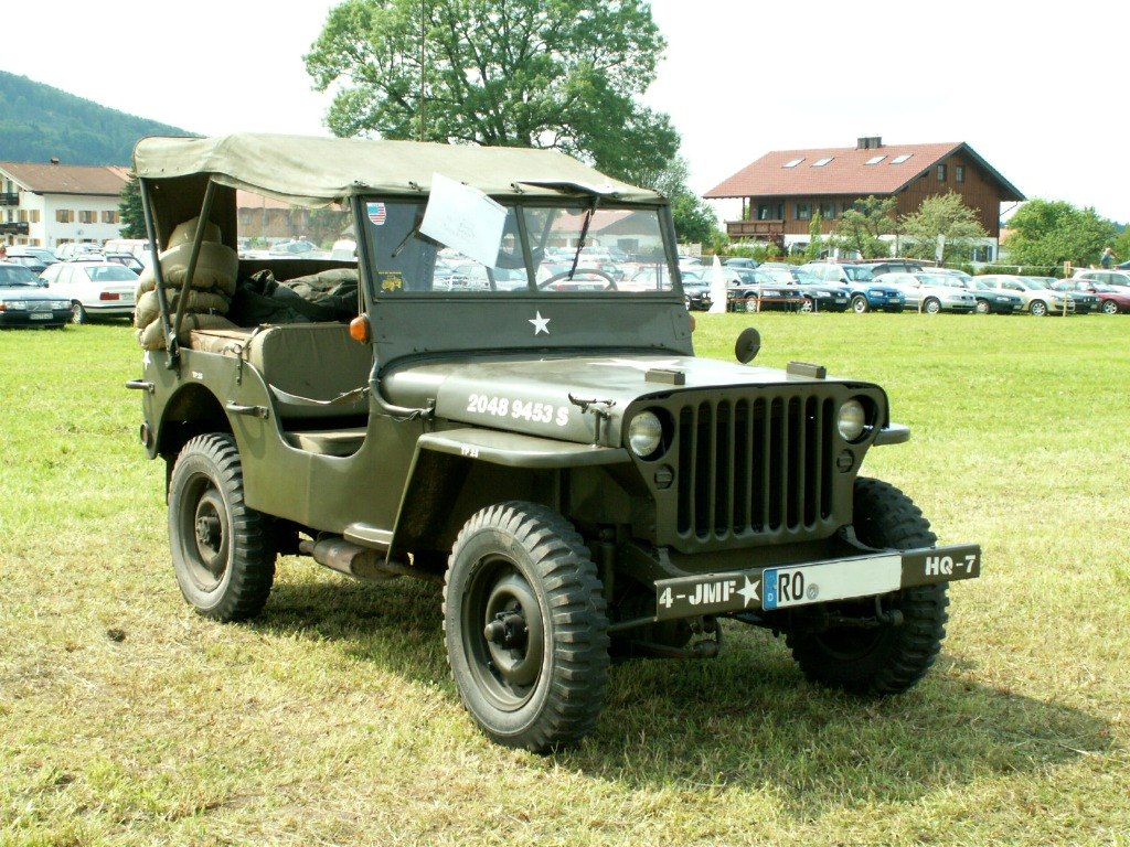 Summary Quelle: selbst fotografiert, 05/2005 Fotograf: Späth Chr.